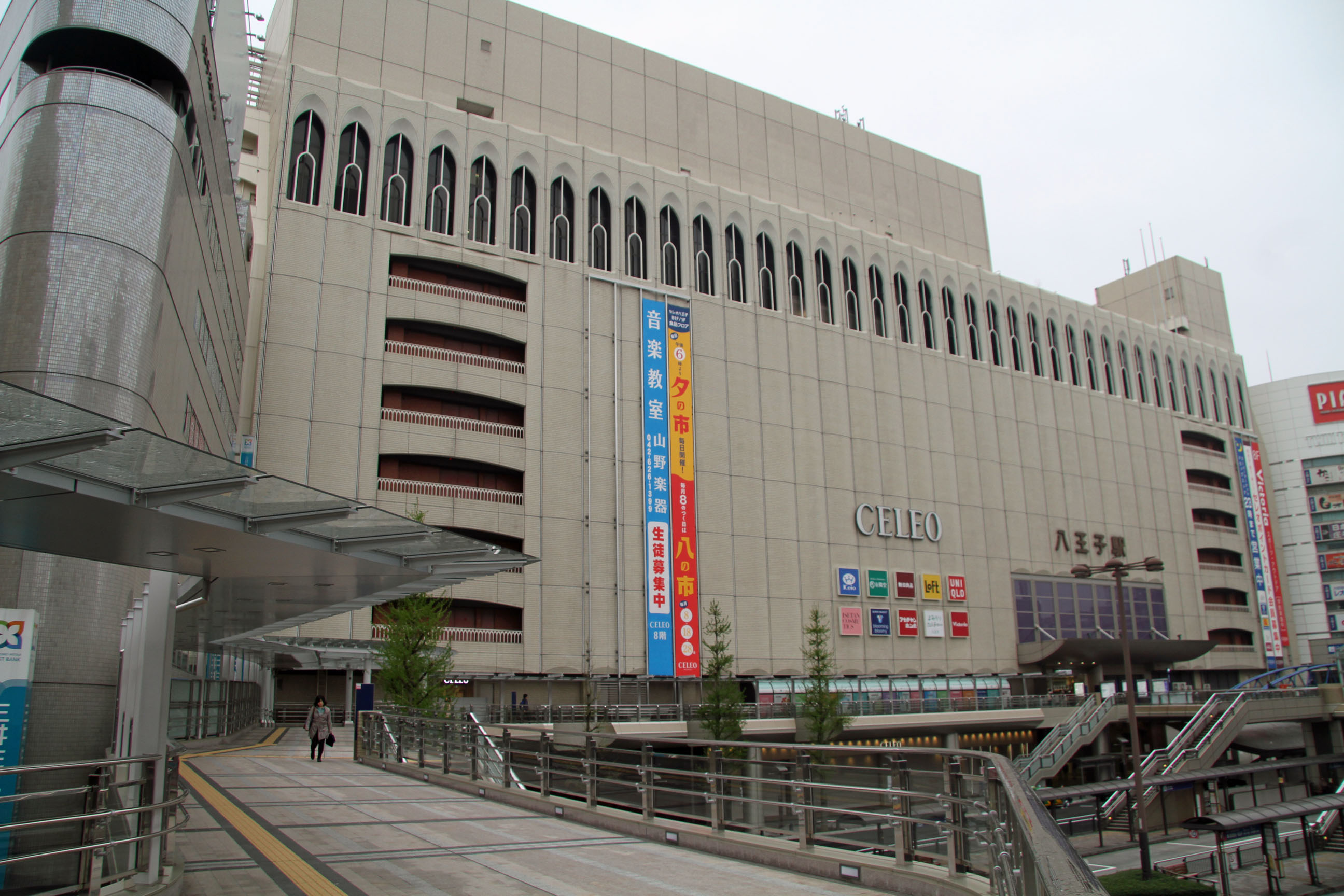 Hachioji Station North Exit (CELEO Hachioji North Building) (after Mulberry Bridge extension, 2014)